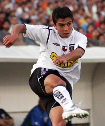 Gonzalo Fierro, in the final of the 2006 Clausura Tournment of the Chilean football league, between Colo-Colo and Audax Italiano